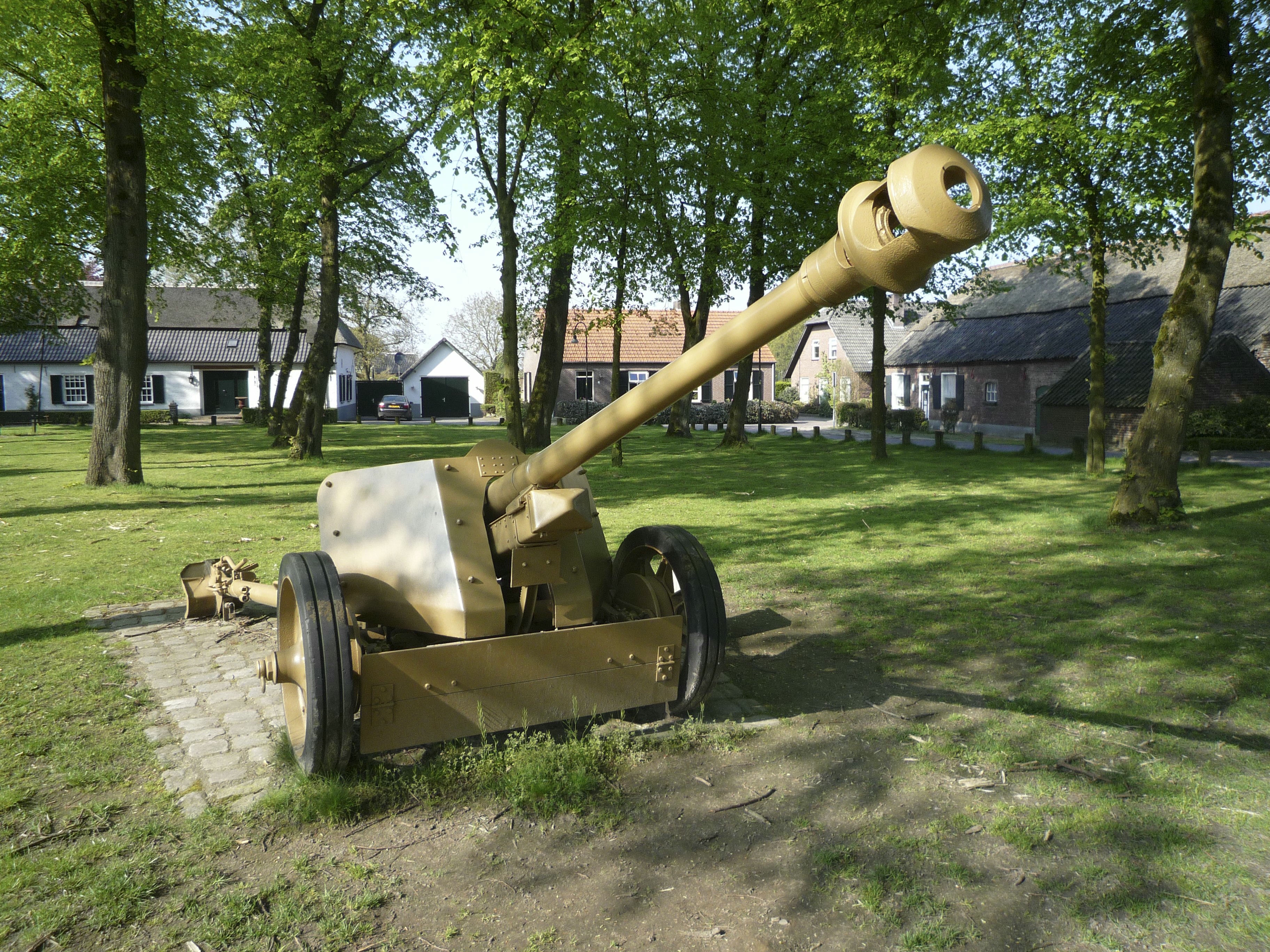 The Kempen / Gun: Panzer Abwehr Kanone, type 40, 75 mm caliber. Tank Buster used during World War II battles in the church of Wintelre (Note: Publication: The Eight Beatitudes (old name) Archaeological Routes in the Netherlands)